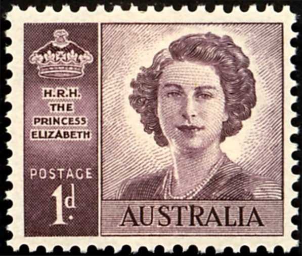 A postage stamp of Australia issued 1947